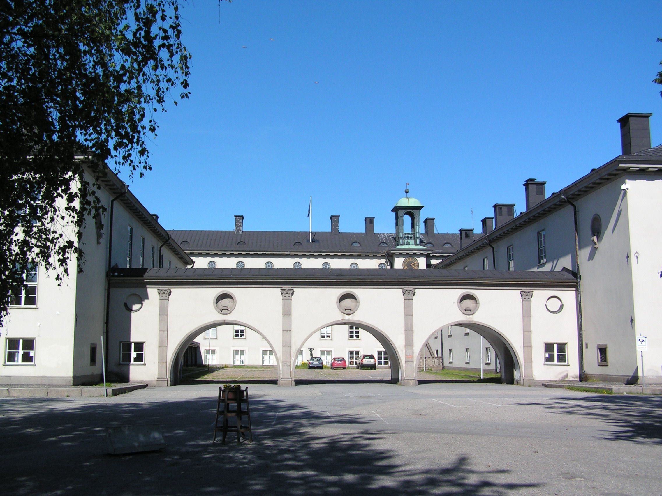 Former Institute of Education (and Public Education Seminar)